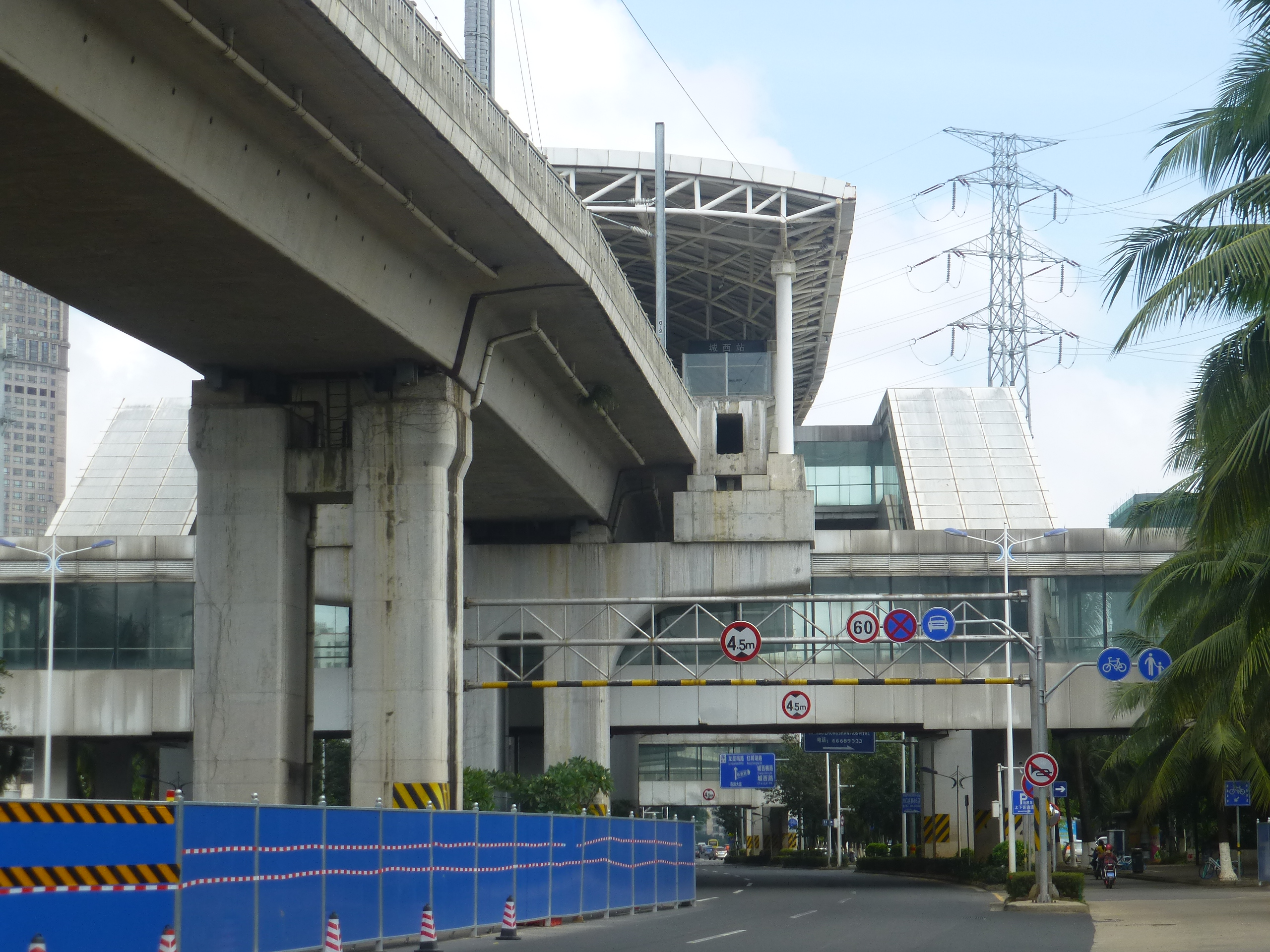 Chengxi Railway Station, a ghost station on the Hainan Western Ring Railway in Haikou